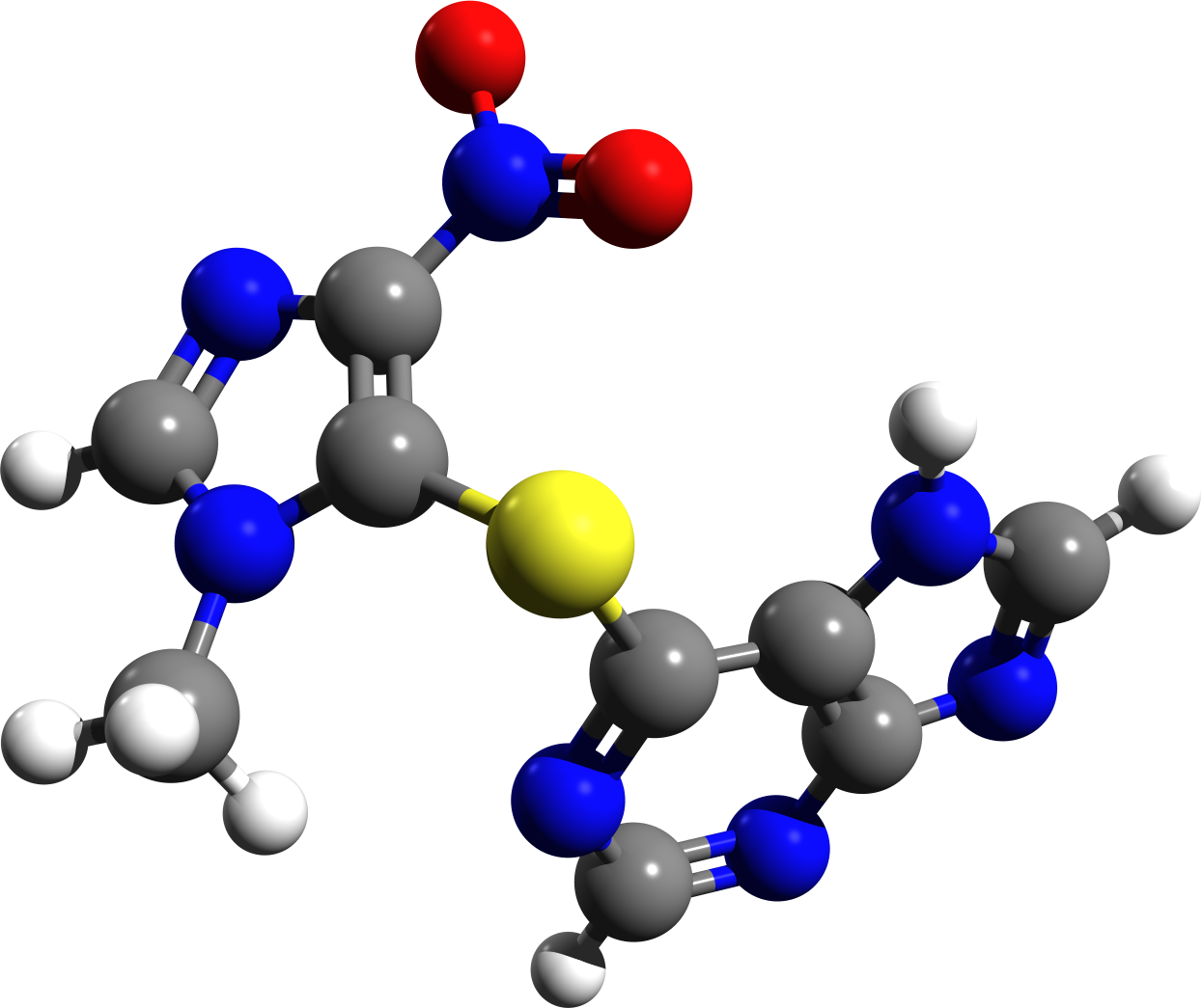 Azathioprine structure